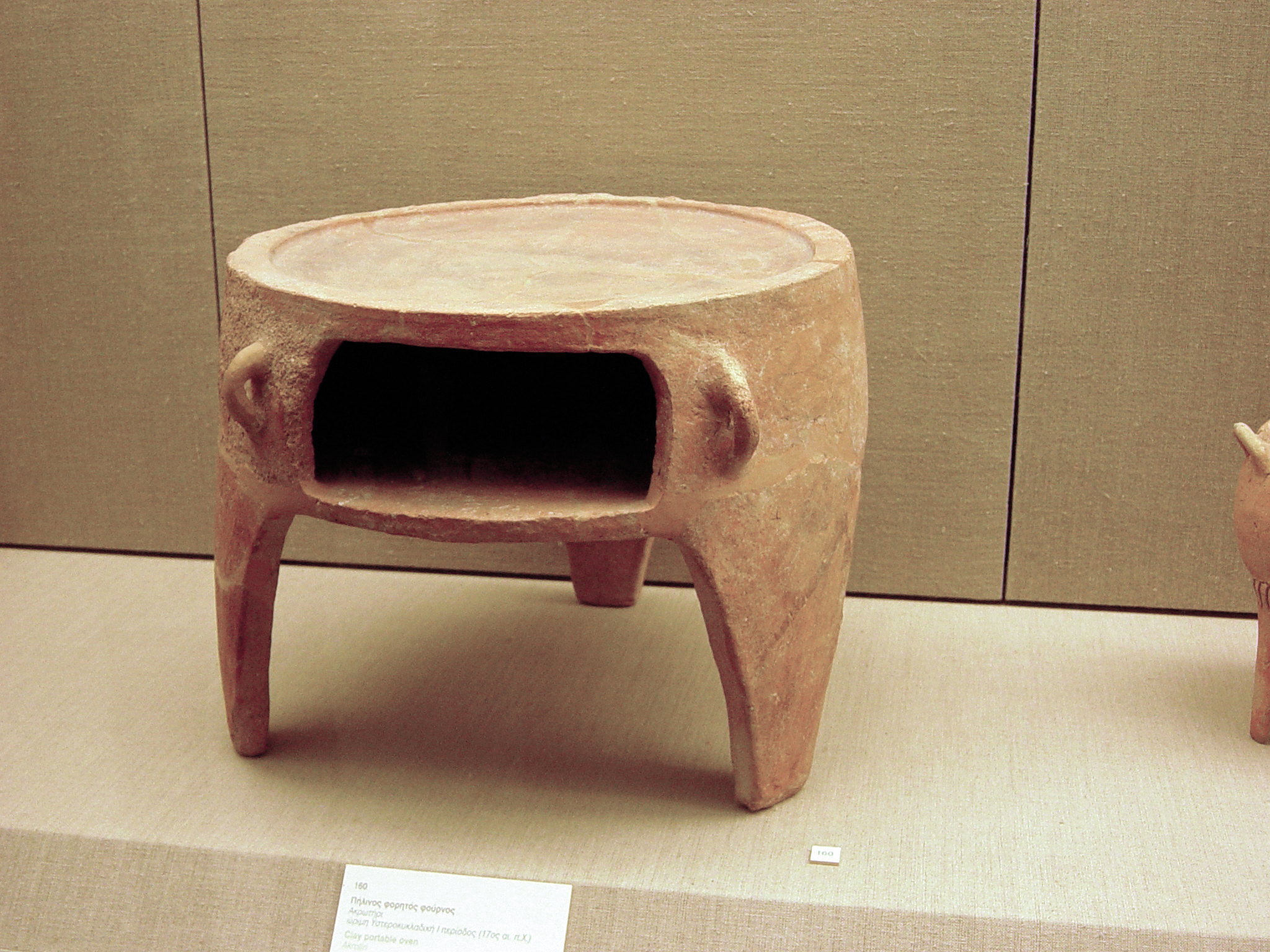 Utilitarian terracotta object, Museum of Cycladic Culture, Akrotiri excavation artifacts, Santorini, Cyclides, Hellas (Greece)